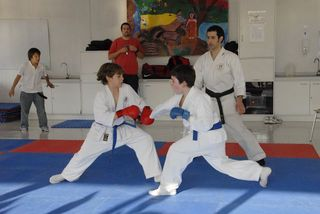 élèves participant à l'atelier de karaté proposé comme activité périscolaire au lycée.